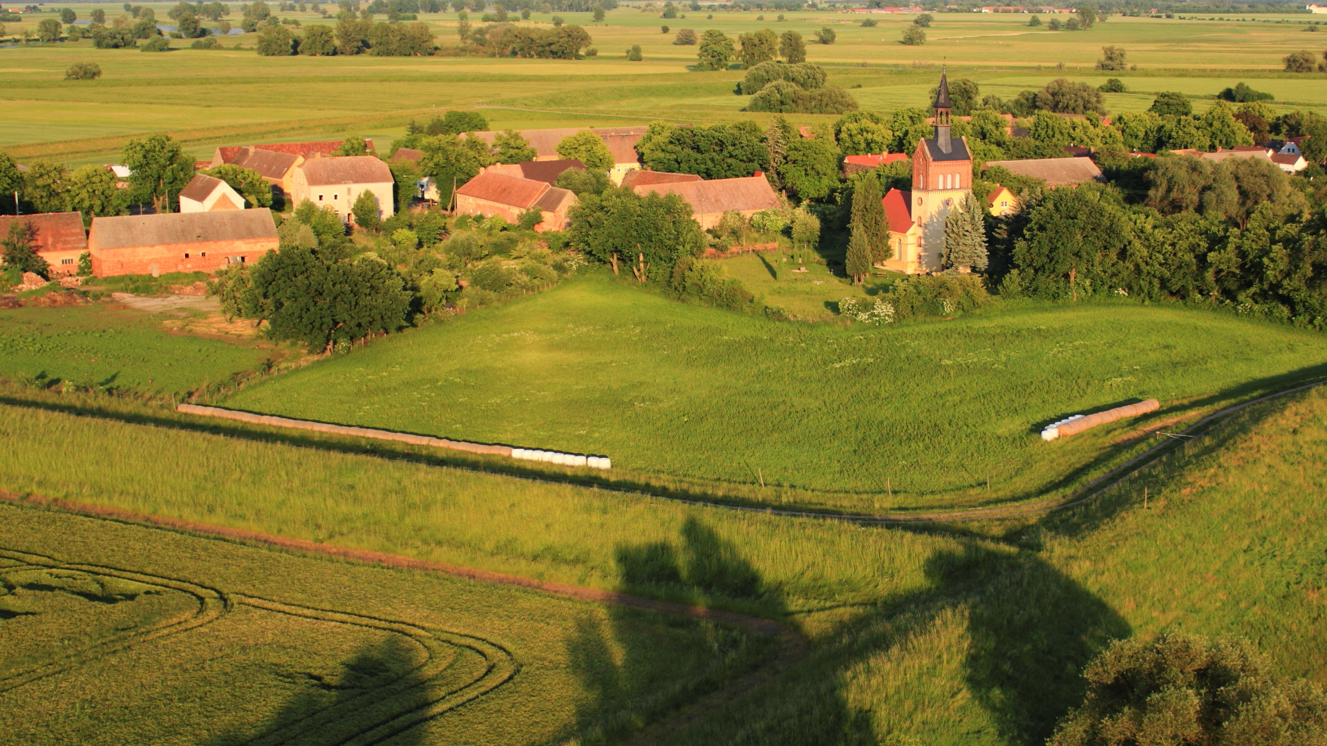 KAP (Kite Aerial Photography)